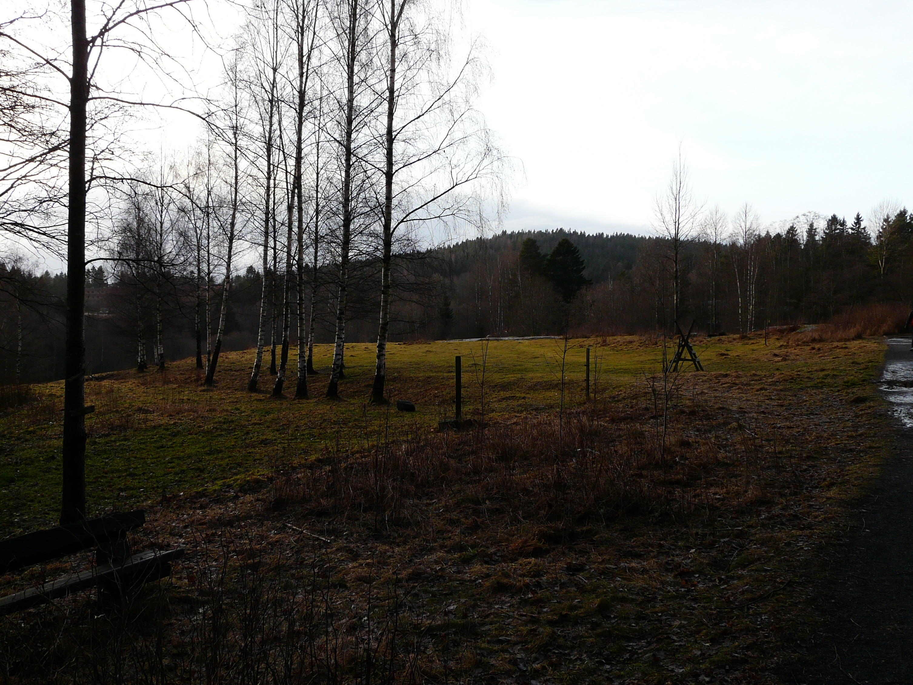 Hestejordene, Groruddalen, Lillomarka, Oslo